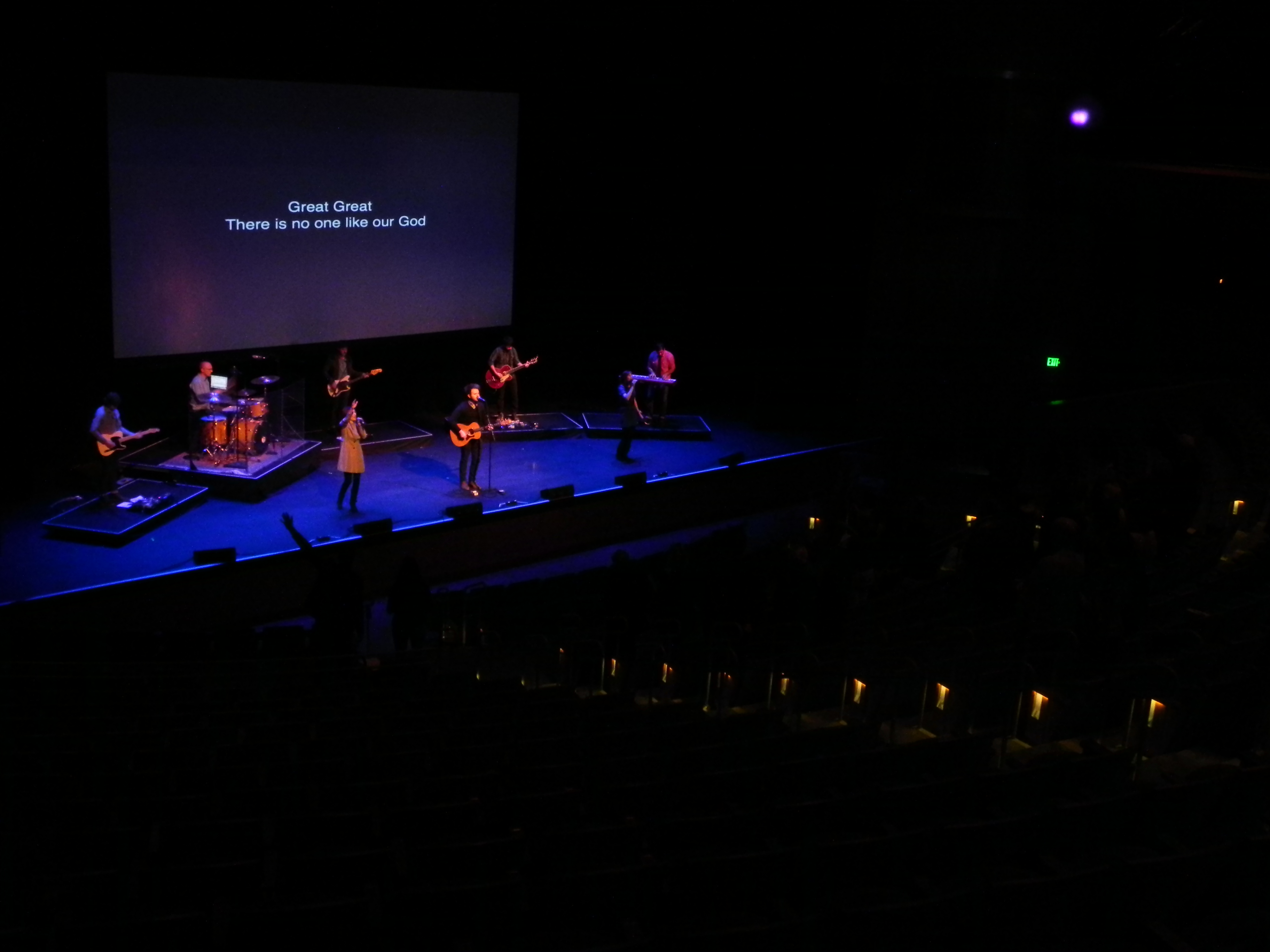 Gateway Church Scottsdale Worship